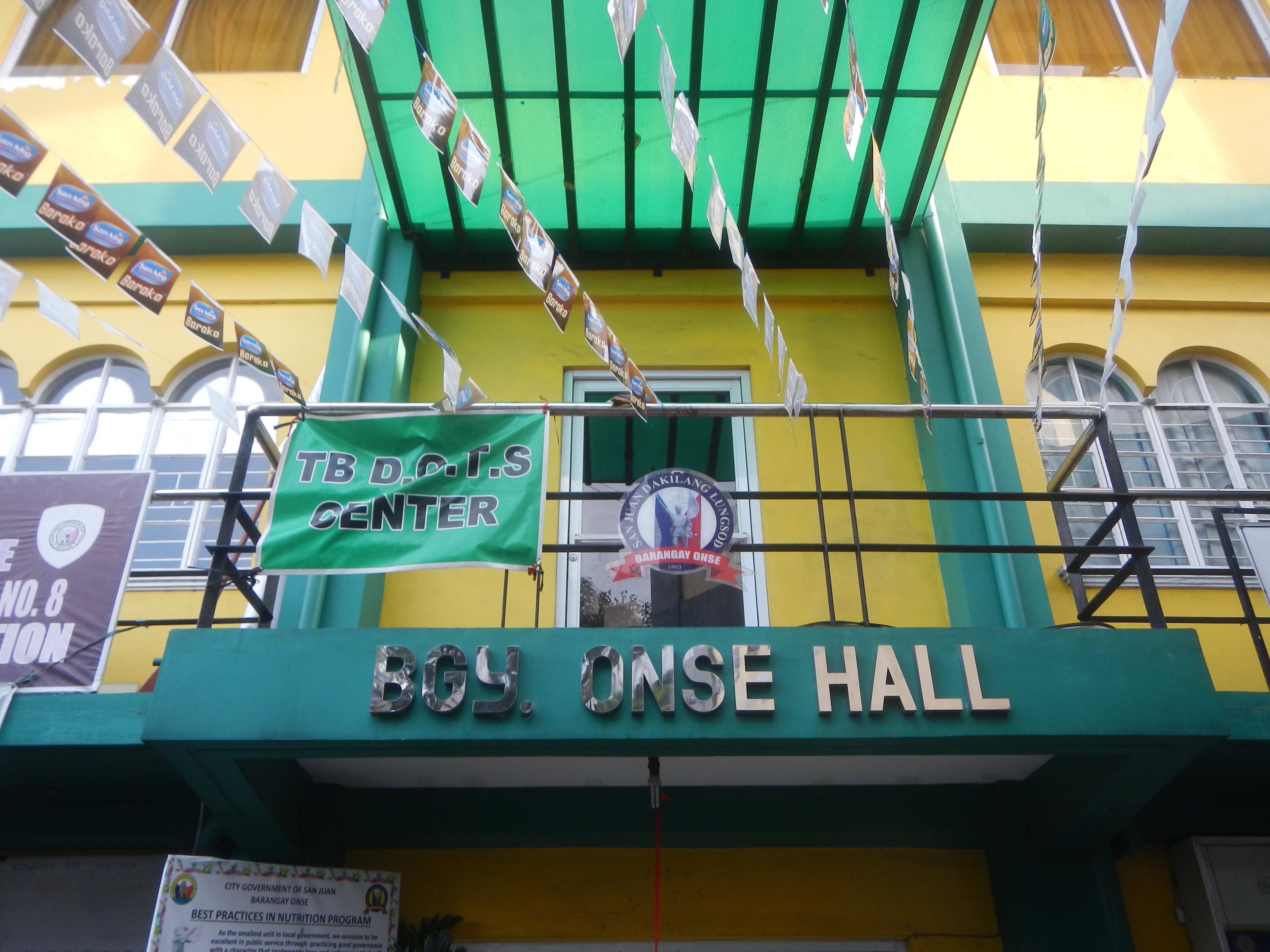 Onse, San Juan Onse, San Juan 14°36'3"N 121°1'55"E Janella Marie Vitug Ejercito Estrada List of barangays of Metro Manila, Legislative district of San Juan-Mandaluyong Legislative district of San Juan, Metro Manila Barangay Onse, San Juan San Juan, Metro Manila (Note: Judge Florentino Floro, the owner, to repeat, Donor Florentino Floro of all these photos hereby donate gratuitously, freely and unconditionally all these photos to and for Wikimedia Commons, exclusively, for public use of the public domain, and again without any condition whatsoever).